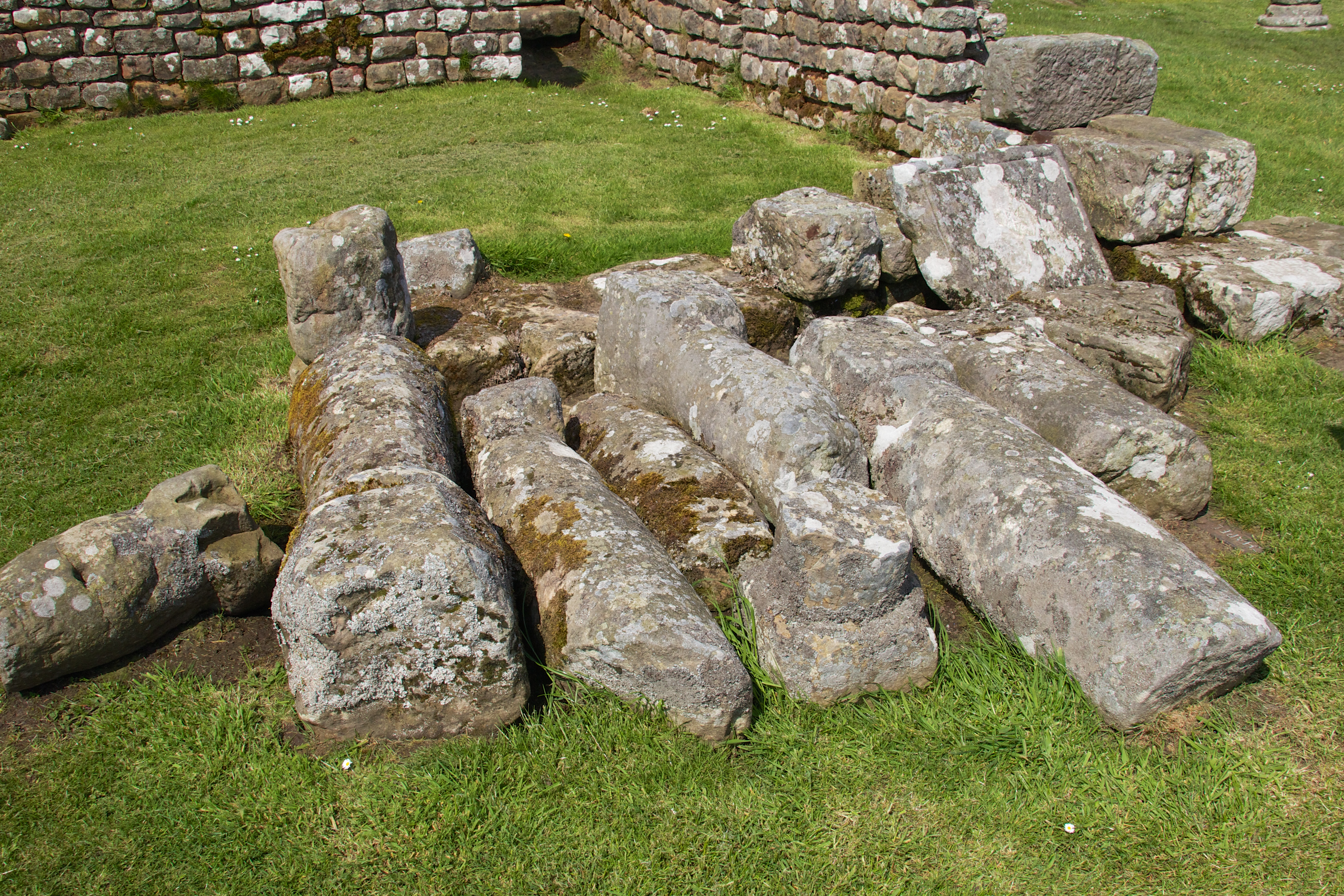 Housesteads roman fort on Hadrian's Wall.